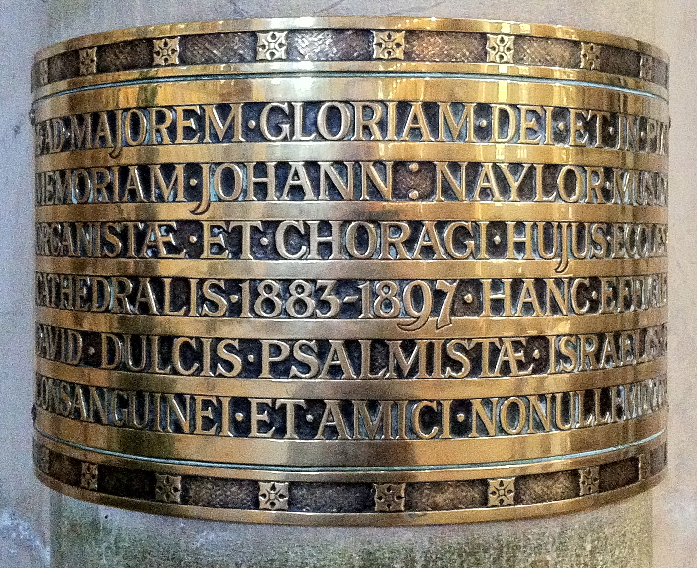 Memorial by George Frederick Bodley to John Naylor, Organist of York Minster. In the north transept of the minster. Inscription reads: Ad Majorem Gloriam Dei et in piam Memoriam Johann Naylor Mus. Doc, Orgaistae et Choragi Hujus Ecclesiae Cathedralis 1883-1897 Hanc effigiem David Dulcis Psalmistae Israelis P C Consanguinei et Amici Nonulli MDCCCCIII